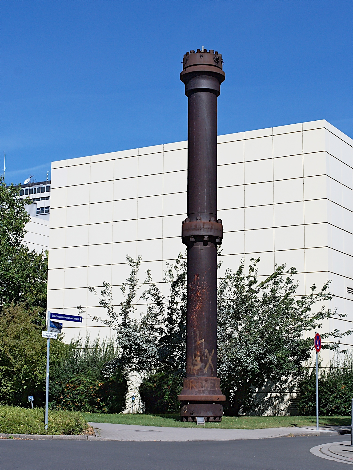 High pressure reactor (steel) used for ammonia production following the Haber process. Built in 1921 by the Badische Anilin- und Sodafabrik AG in Ludwigshafen am Rhein. Now reerected on the premises of the University Karlsruhe, Germany.